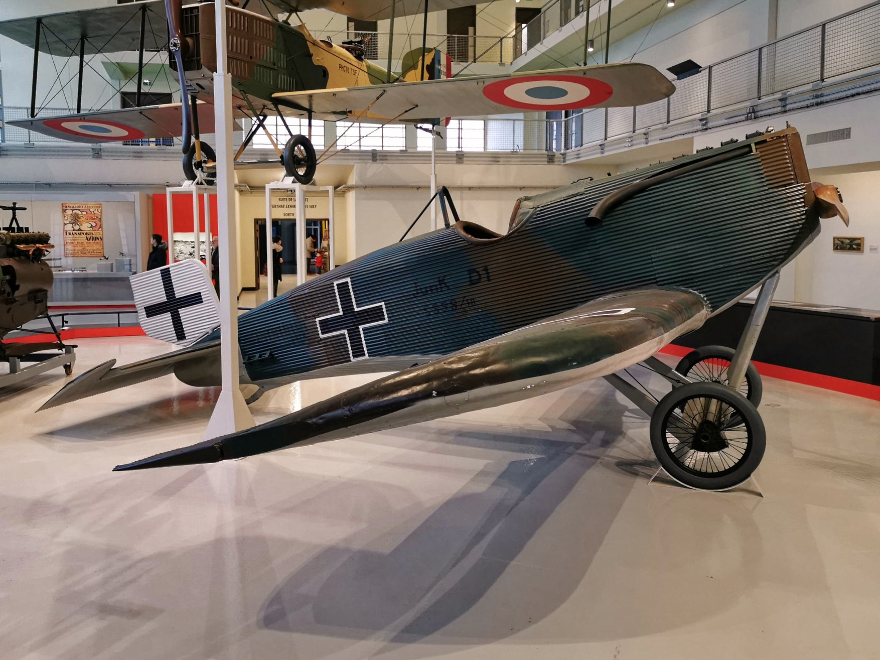 The Junkers D.1 is known for becoming the first all-metal fighter to enter service. This one, in the Musée de l'Air et de l'Espace, at the Paris–Le Bourget Airport, is the only survivor.